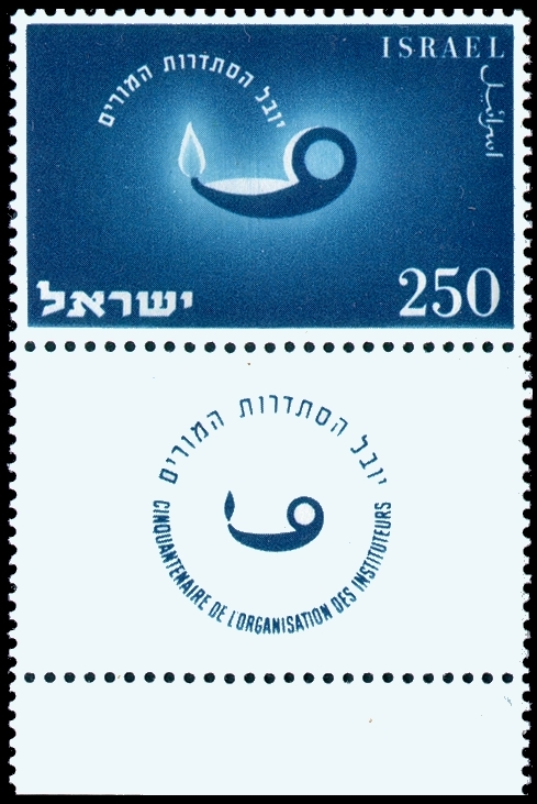 Teachers Association Jubilee stamp - 250 mil. Inscription & Inscription on tab: "50th anniversary of the Teachers' Association".